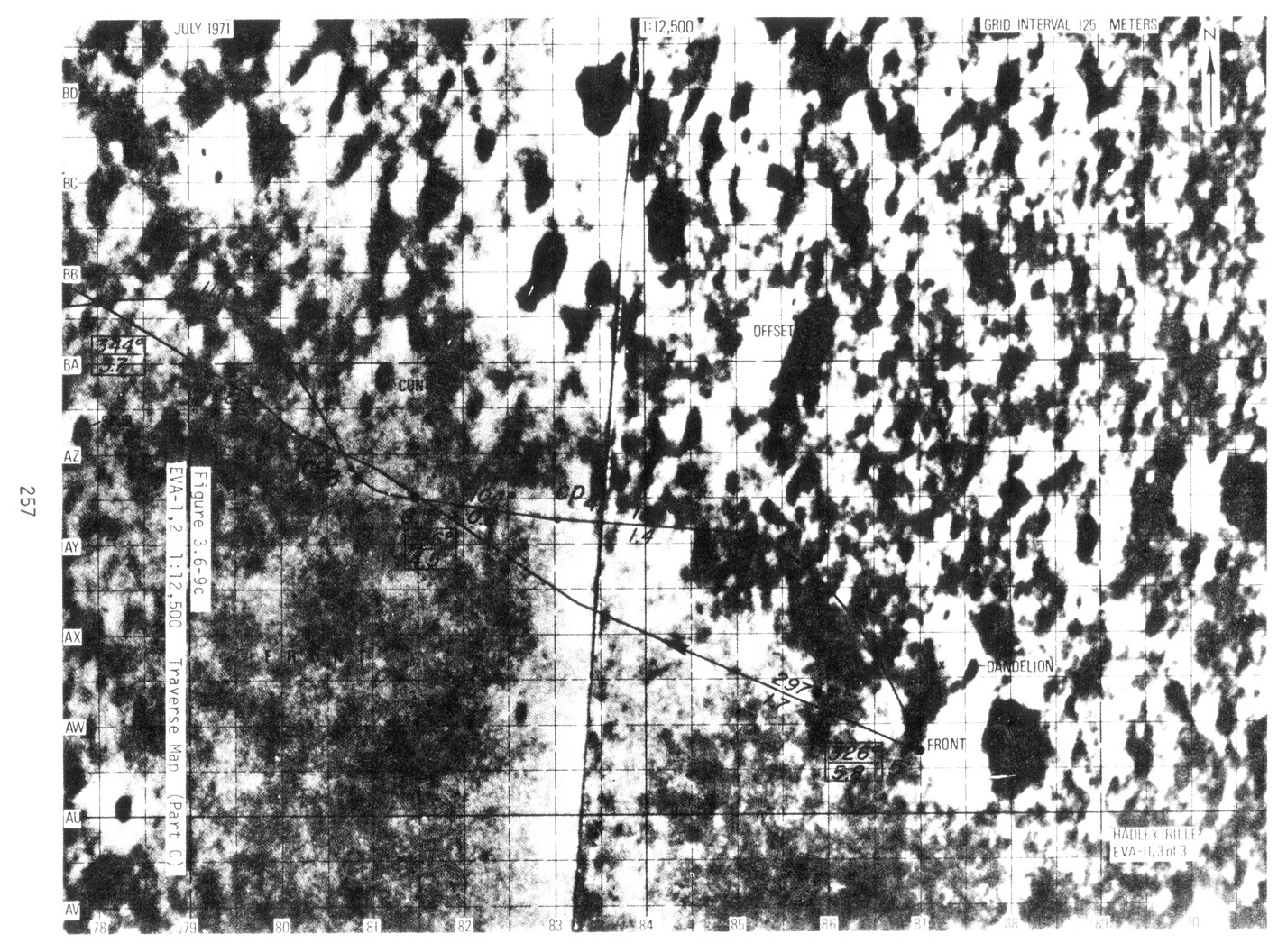 Photograph of lunar surface, showing Dandelion Crater (named for Ray Bradbury's short story and novel "Dandelion Wine"), photographed by Apollo 15 astronauts (who named the crater) around the end of July or beginning of August, 1971